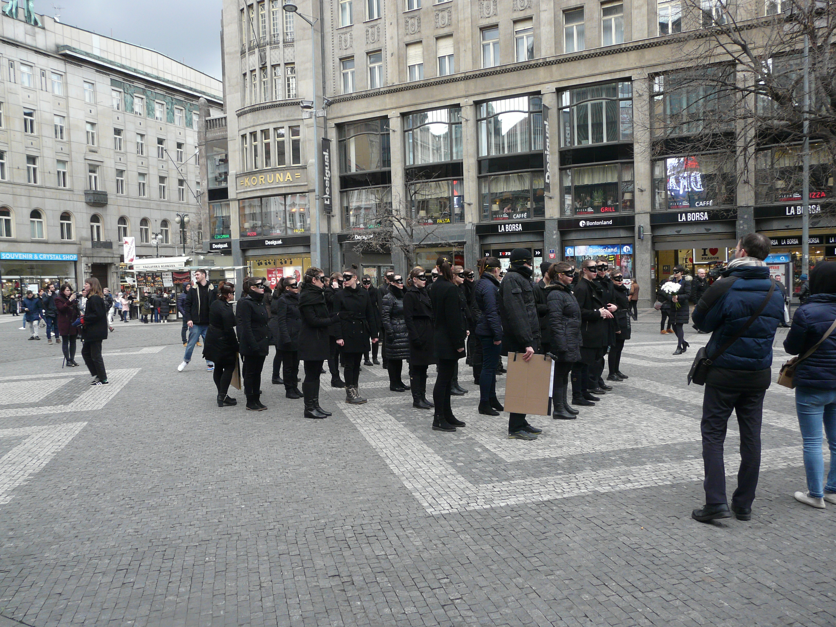 Prague in 2018